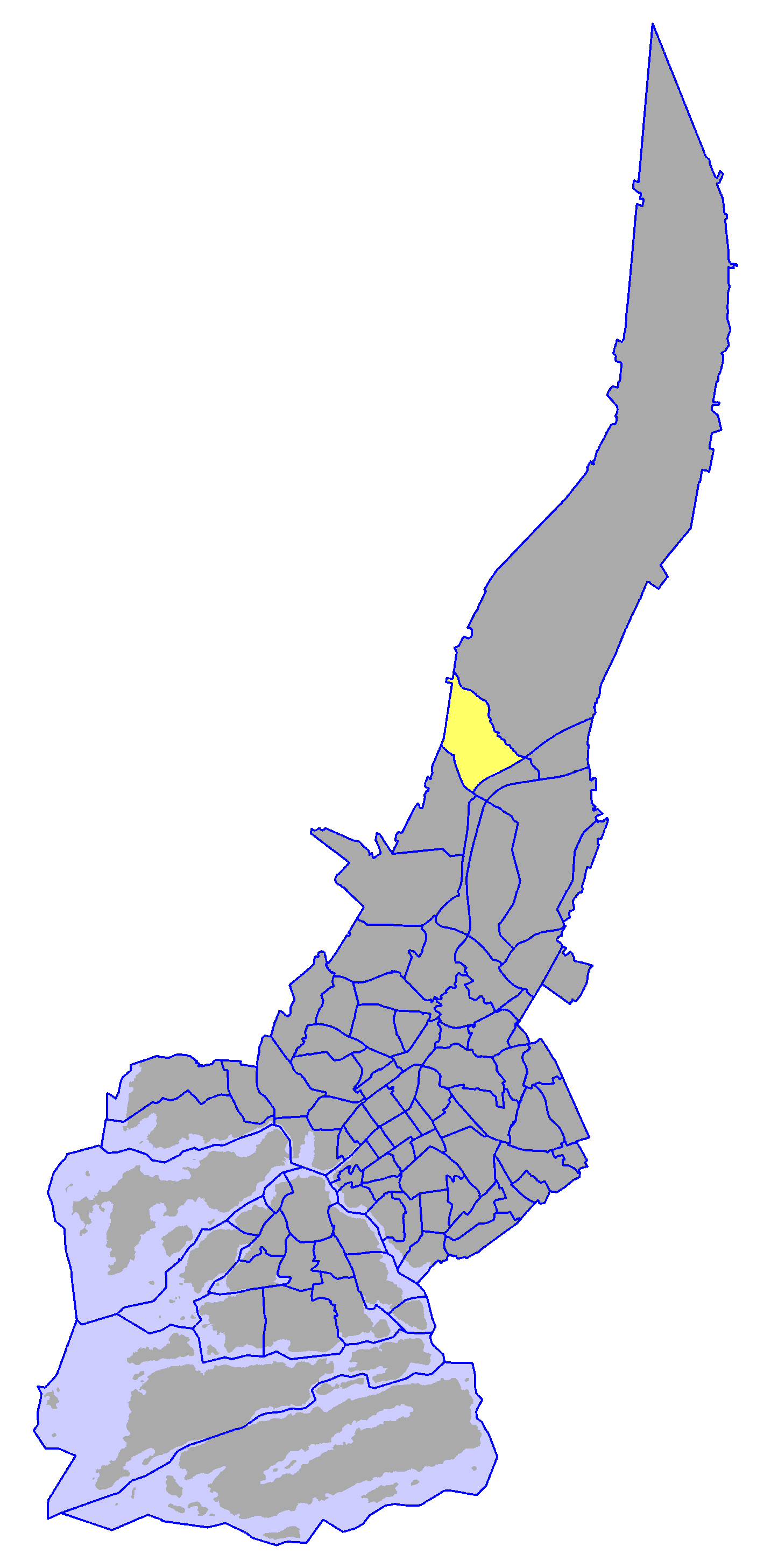 District of Yli-Maaria, in Turku